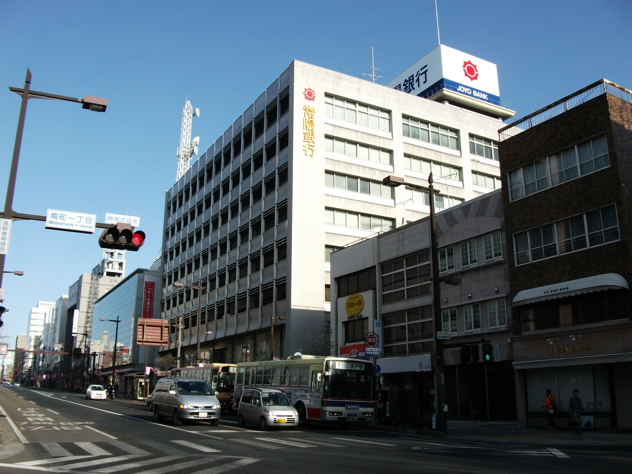 Joyo Bank headoffice (Mito, Japan)